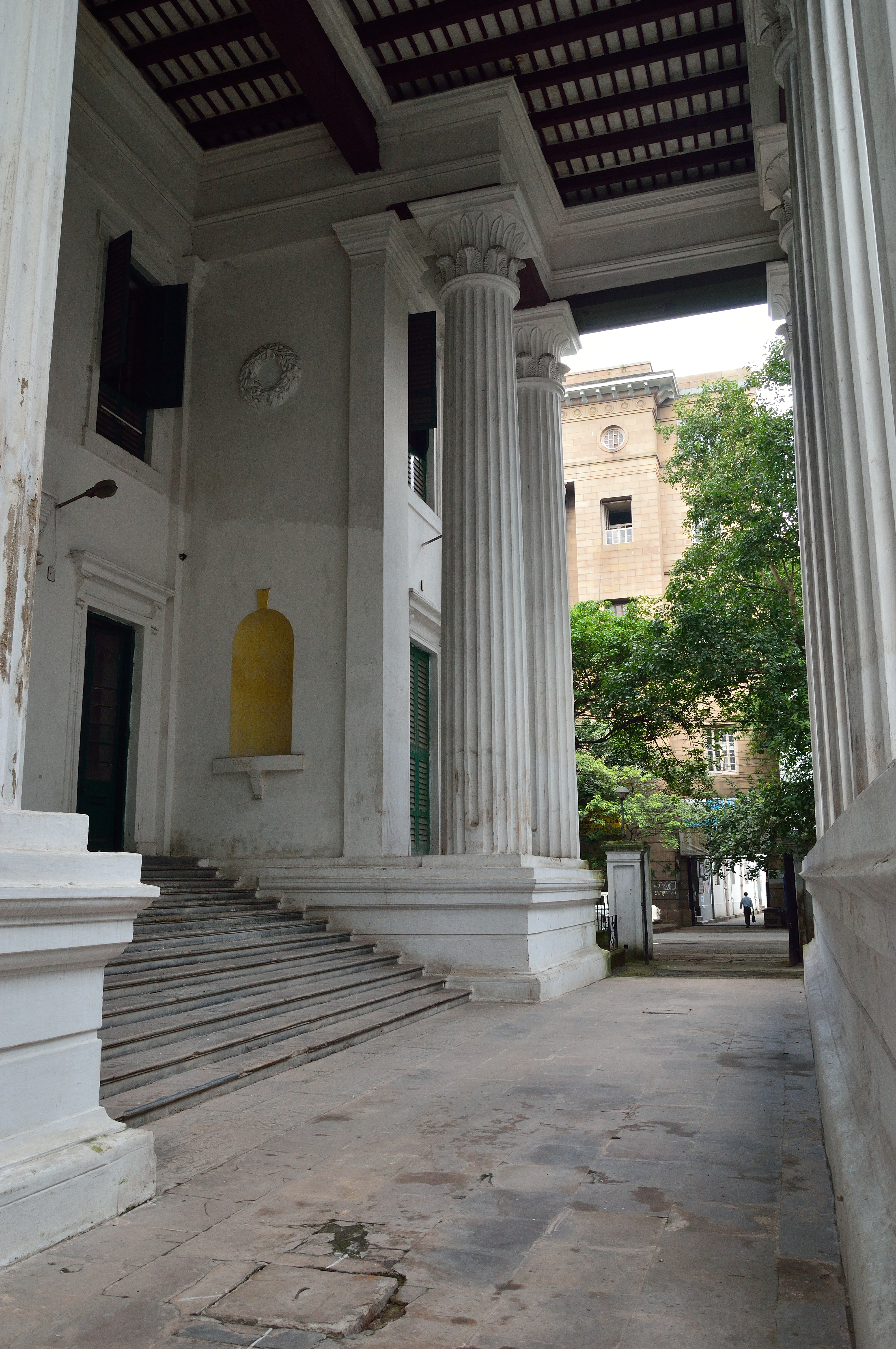 The Metcalfe Hall was erected as its name imparts to perpetuate the memory of Lord Metcalfe, who officiated as Governor General of India from March 1835 to March 1836. It was originally conceptualised as a Public Library later on housed the Imperial Library.